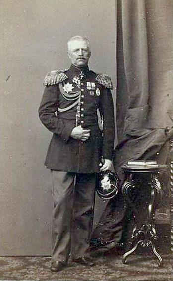 Golitsyn, Vladimir Dimitriyevich.